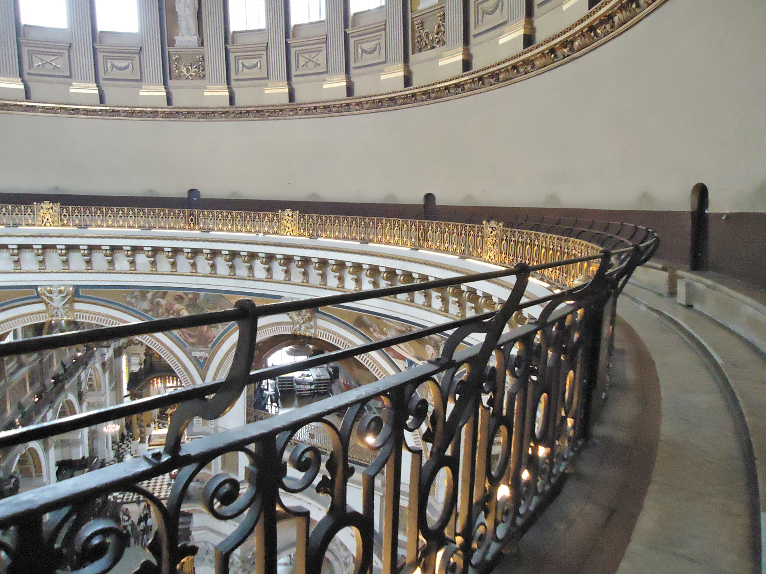 Picture of St Paul's whispering gallery taken on Oct. 31, 2012 during a private visit.